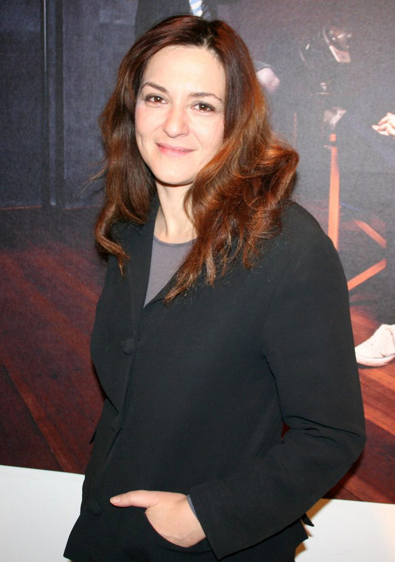 German actress Martina Gedeck